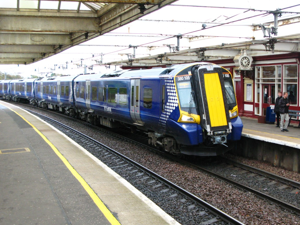 Recently introduced electric multiple unit 380105 pulls into Troon station with an Ayrshire Coast service from Ayr to Glasgow Central in June 2011.